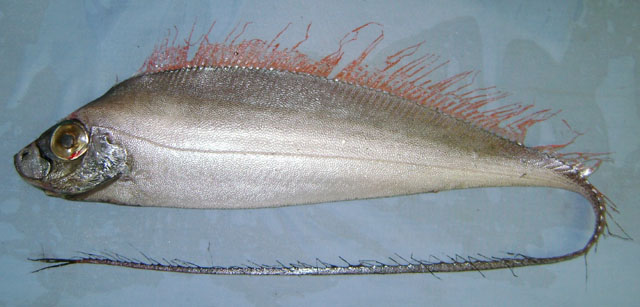 Desmodema polystictum collected in Pkistan during the Dr Fridtjof Nansen Cruise.